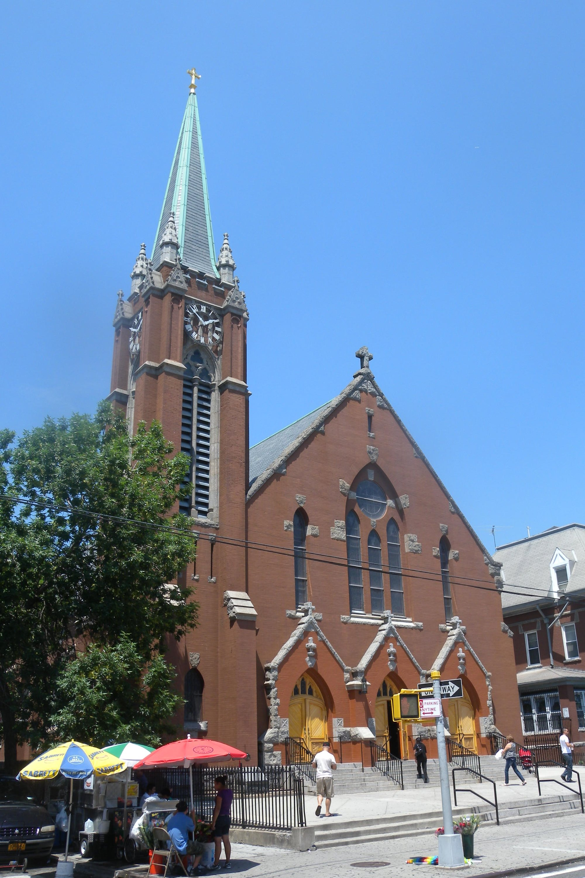 Looking northeast across 104th St and 37 Avenue at Our Lady of Sorrows on a sunny midday.